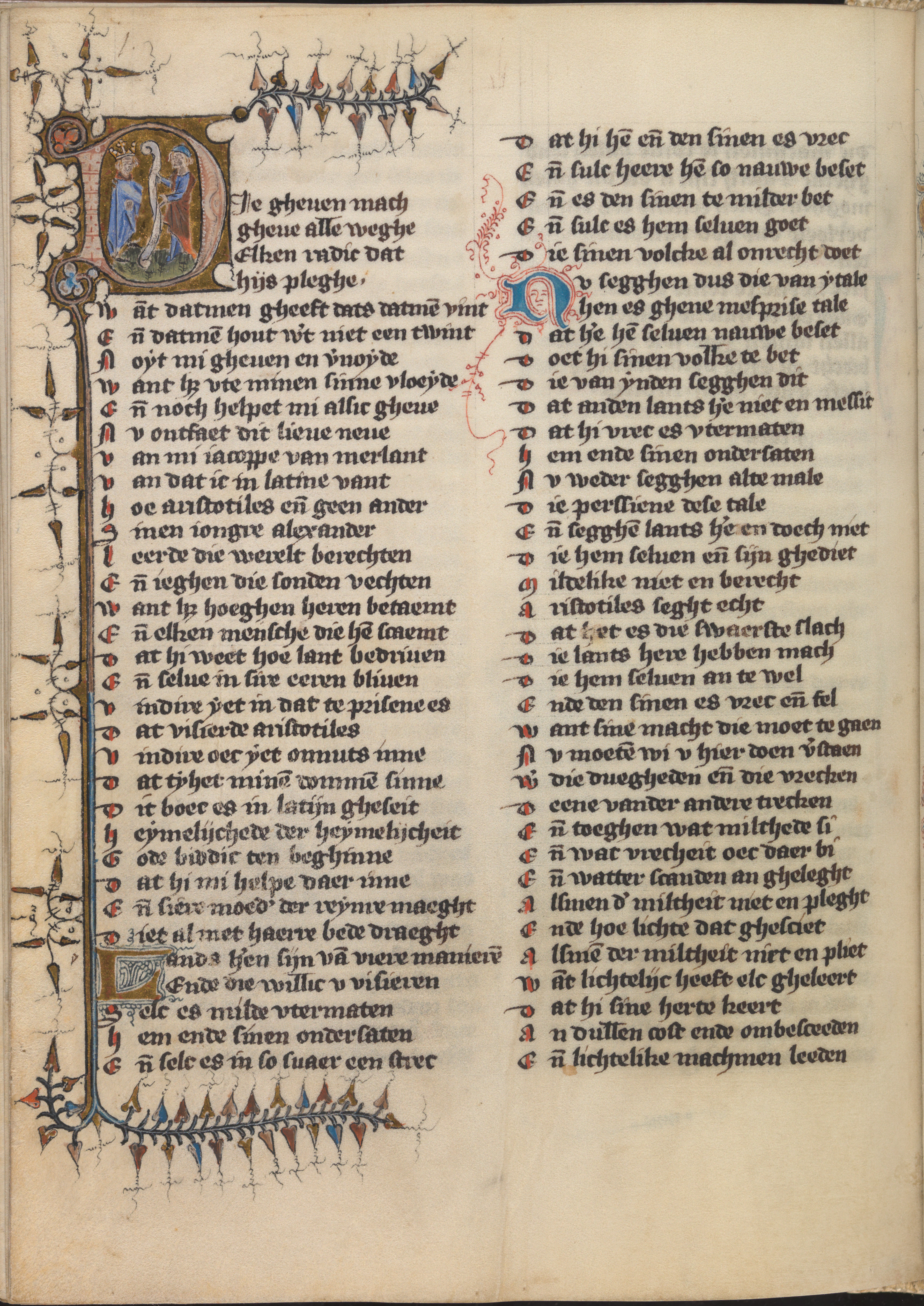 Die Heimelicheit der heimelicheden. This text is folium 061v of the manuscript KB 76 E 5 containing Die Dietsche Doctrinale by Jan van Boendale, Beatrijs, Dit es vanden aflate van Rome, Die heimelicheit der heimelicheden by Jacob van Maerlant and other texts About the illumination The historiated initial shows Alexander and Aristotle (story of) alexander the great (THE GREAT) 98B(ALEXANDER THE GREAT)) Roman script; scripts based on the roman alphabet (d) (49L12(D)) Historiated initial (49L171) Aristotle (98B(ARISTOTLE))